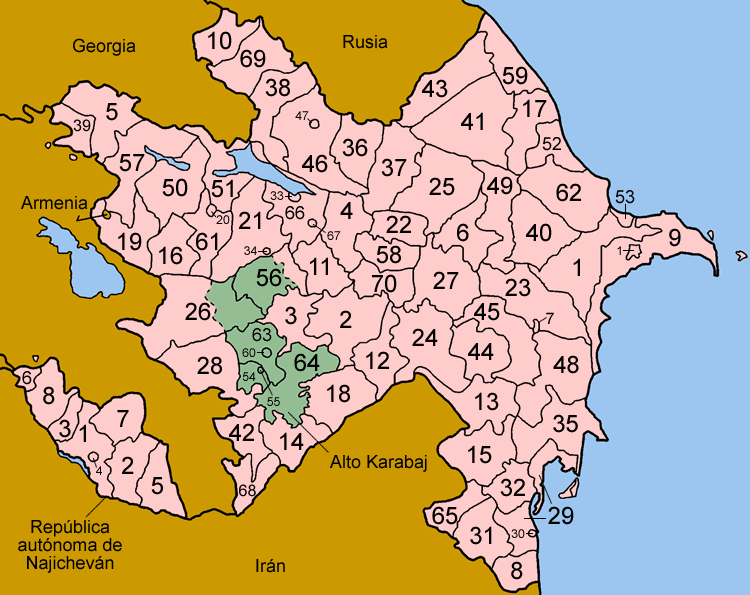 Map of the divisions of Azerbaijan in Spanish.